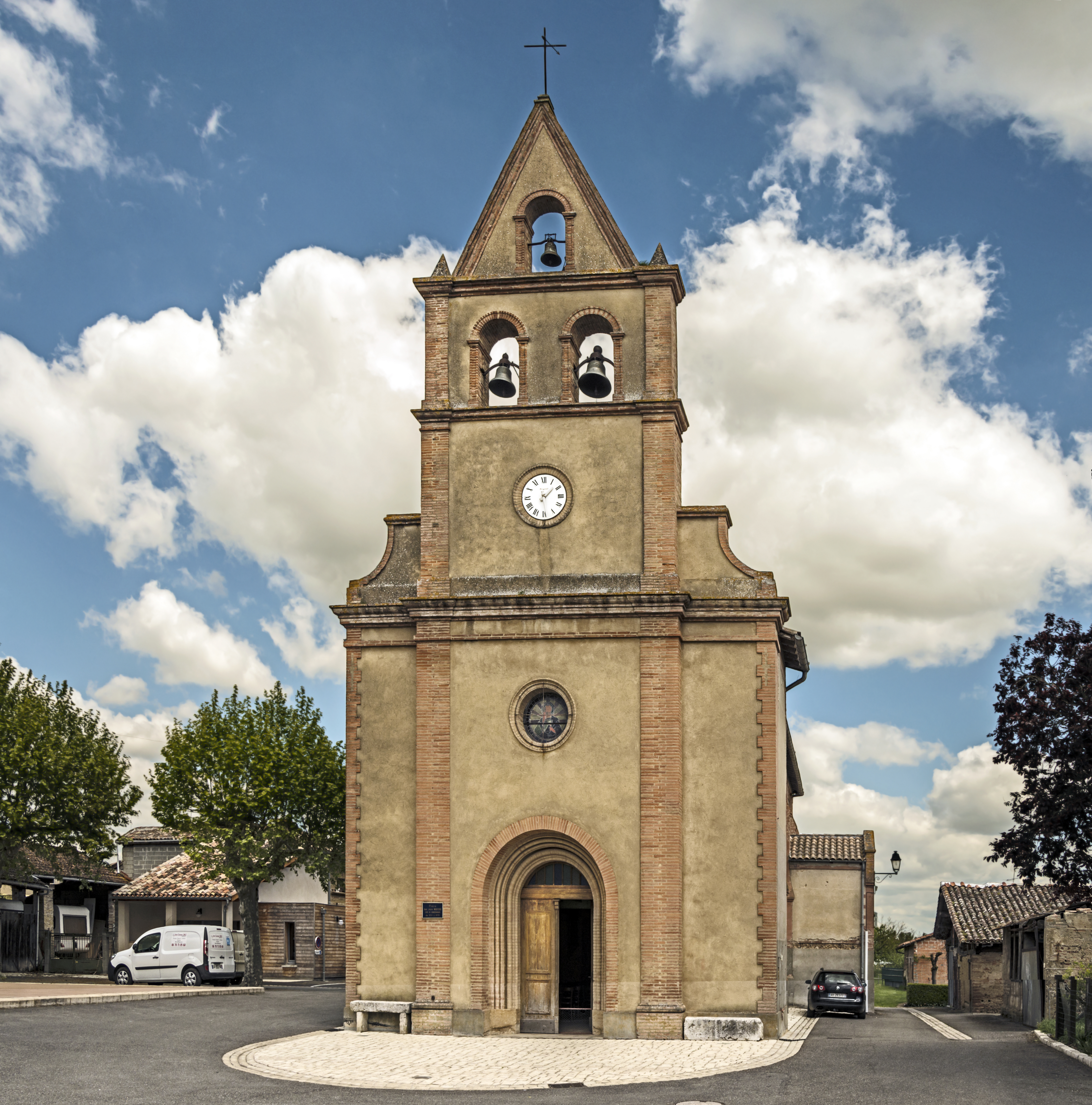 Façade and Bell gable of St. Bartholomew Church of the nineteenth century in Comberouger Tarn-et-Garonne France.